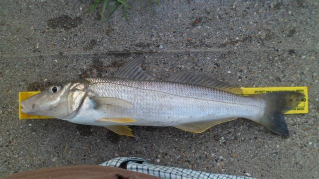 Sillago ciliata collected in Gold coast, Australia.